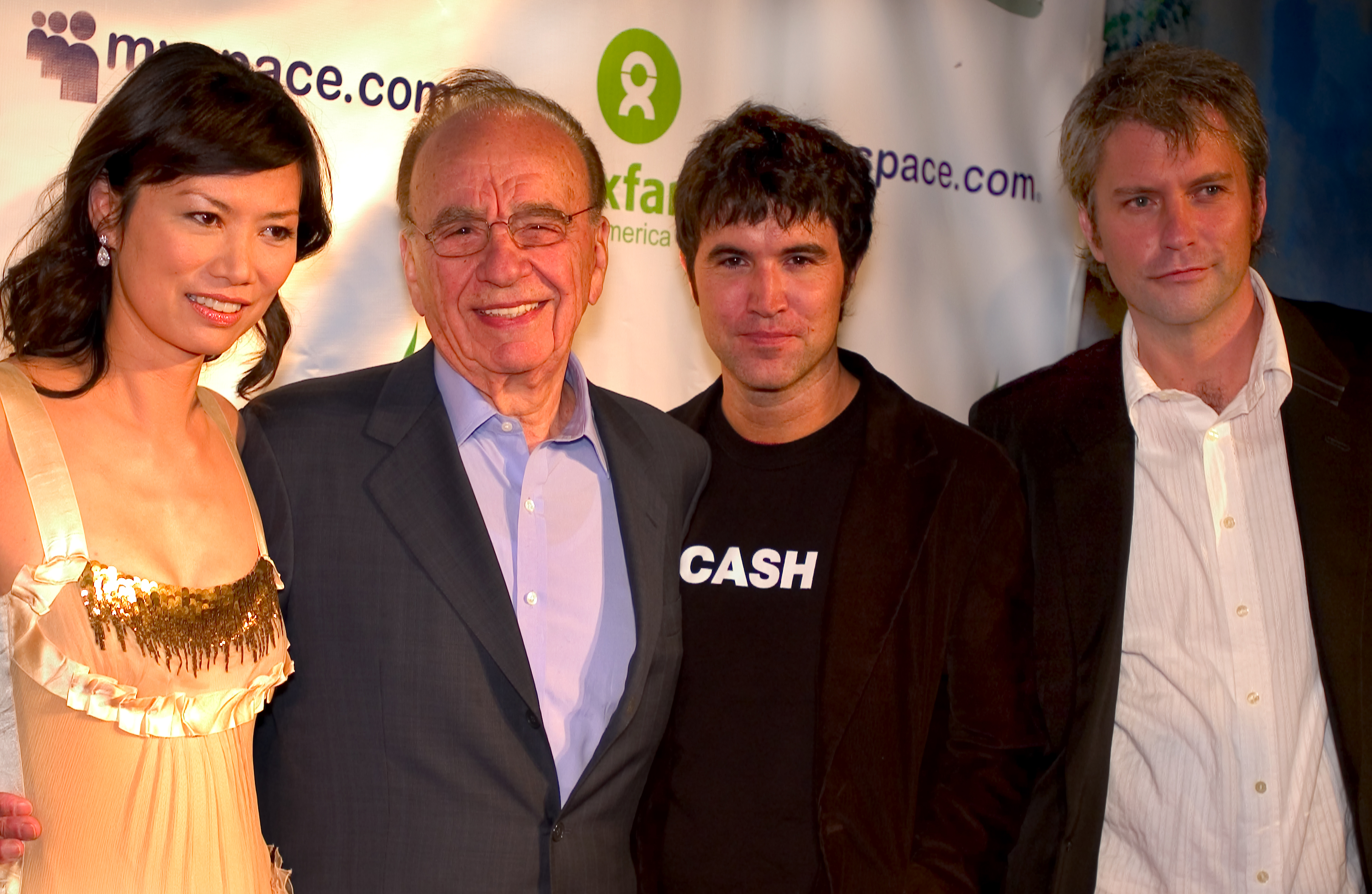 News Corp. CEO Rupert Murdoch attends the Oxfam/Myspace Rock for Darfur event with his wife Wendi Deng, and Myspace Co-founders Tom Anderson and Chris DeWolfe.